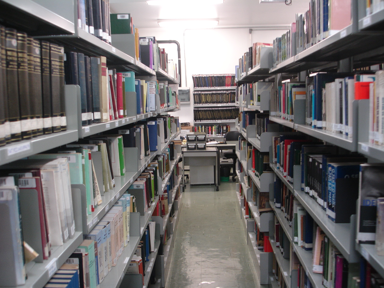 Library - Faculty of Law of São Bernardo do Campo